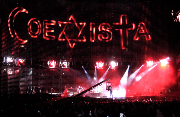 U2 in Mexico City on the "Vertigo" tour - photo taken during the playing of "Sunday Bloody Sunday". Photo taken by Googie Man on February 16, 2006.